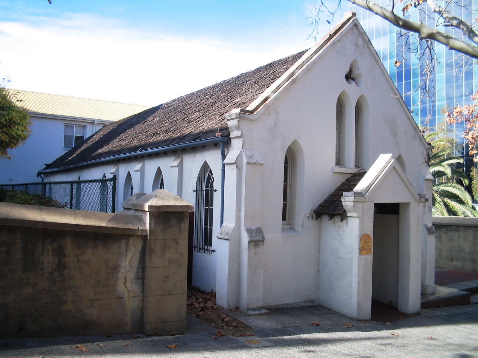 St John's pro-cathedral, Victoria Square, Perth